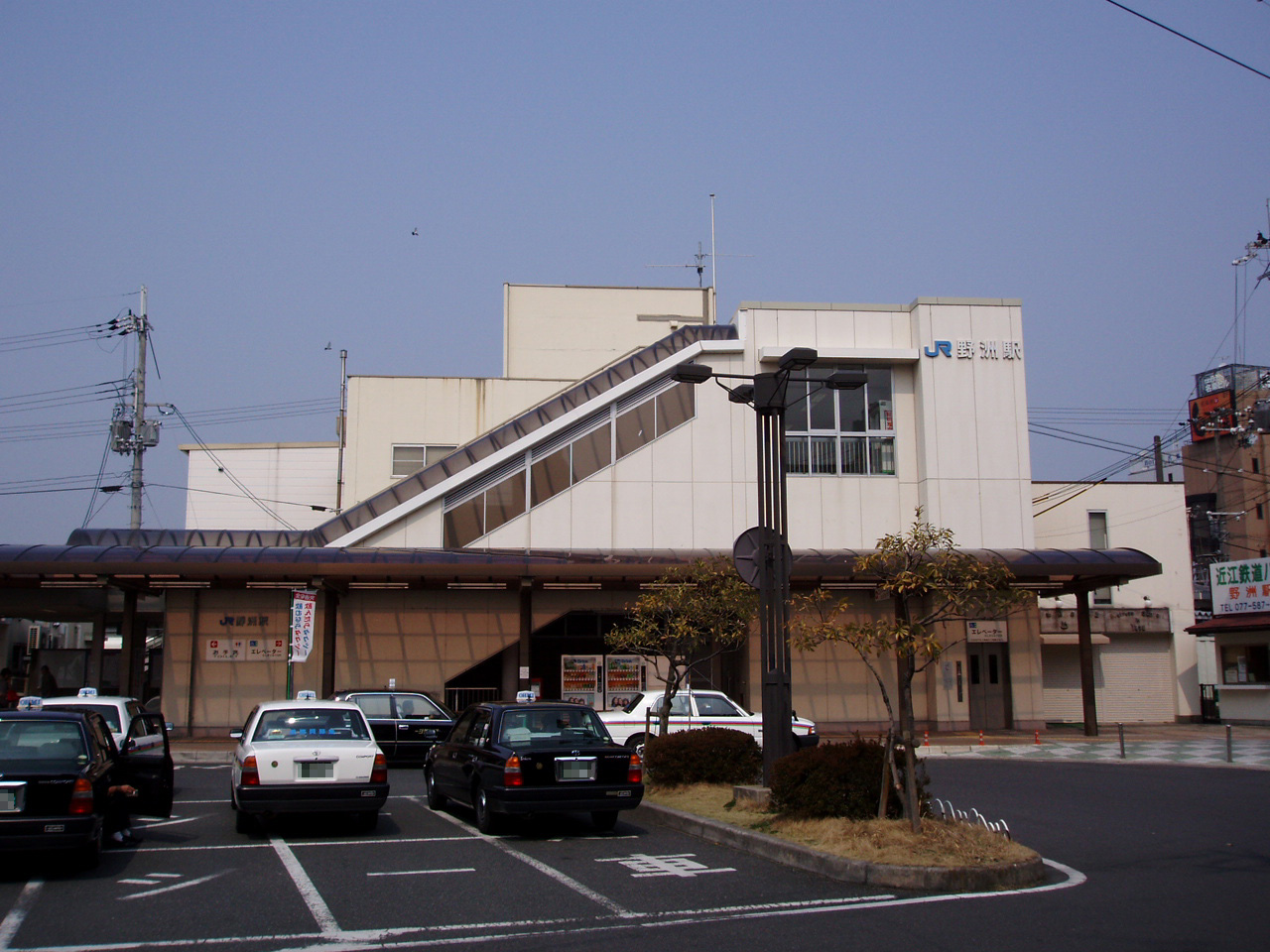 West Japan Railway Tōkaidō Main Line（Biwako Line） Yasu Station Building（South Gate） 西日本旅客鉄道 東海道本線（琵琶湖線） 野洲駅 駅建物（南出口）